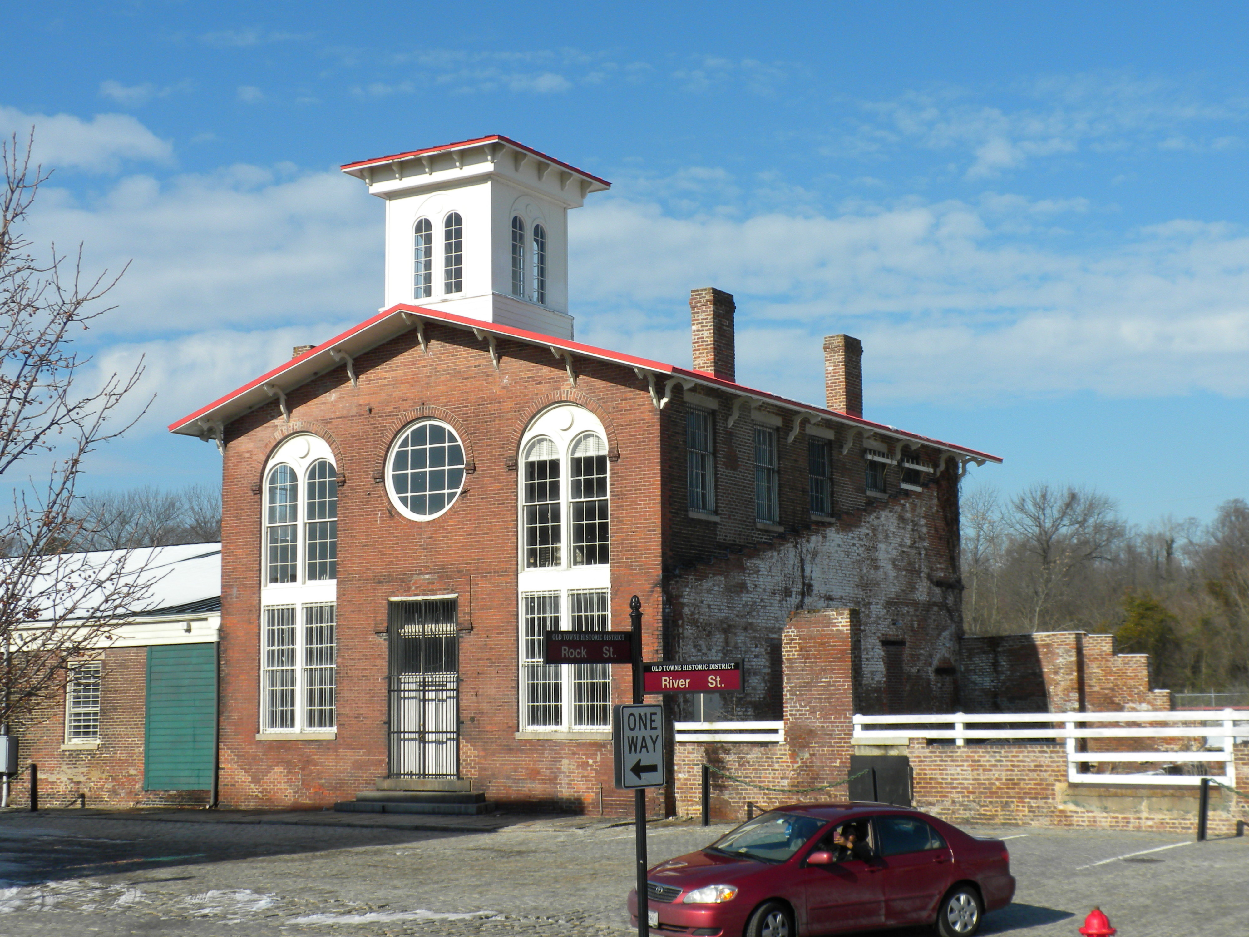 South Side Railroad Depot in Petersburg, VA at corner of Rock and River streets, built 1851, 1853. Office of General William Mahone, leader of the radical Republican Readjustor Party, which "controlled" Virginia post Civil War. I donate this photo to the public domain.